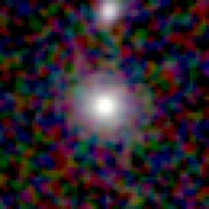 Galaxy NGC 417